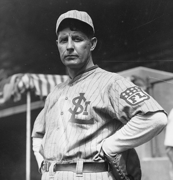 Fielder Jones, manager and player, St. Louis Federal League (baseball)